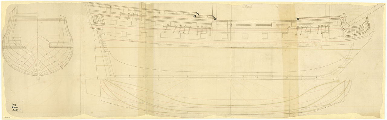 Nonsuch (1741) Scale: 1:48. Plan showing the body plan, sheer lines, and longitudinal half-breadth for Nonsuch (1741), a 1733 Establishment 50-gun Fourth Rate, two-decker. NONSUCH 1741